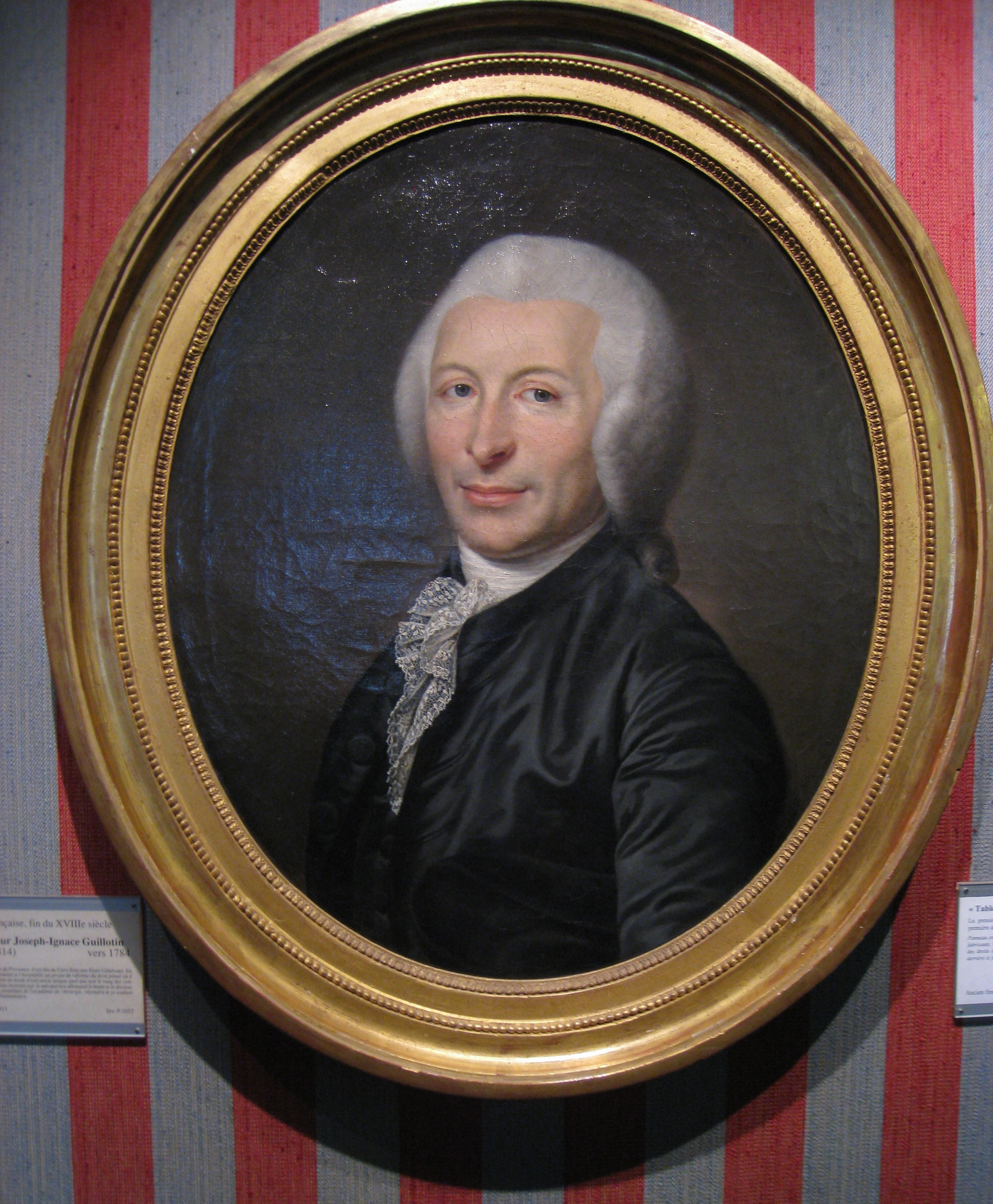 Portrait of Joseph-Ignace Guillotin (1738-1814)